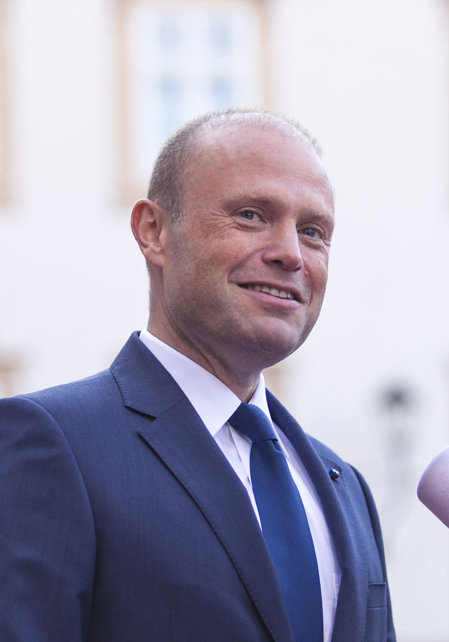 Template:Joseph Muscat